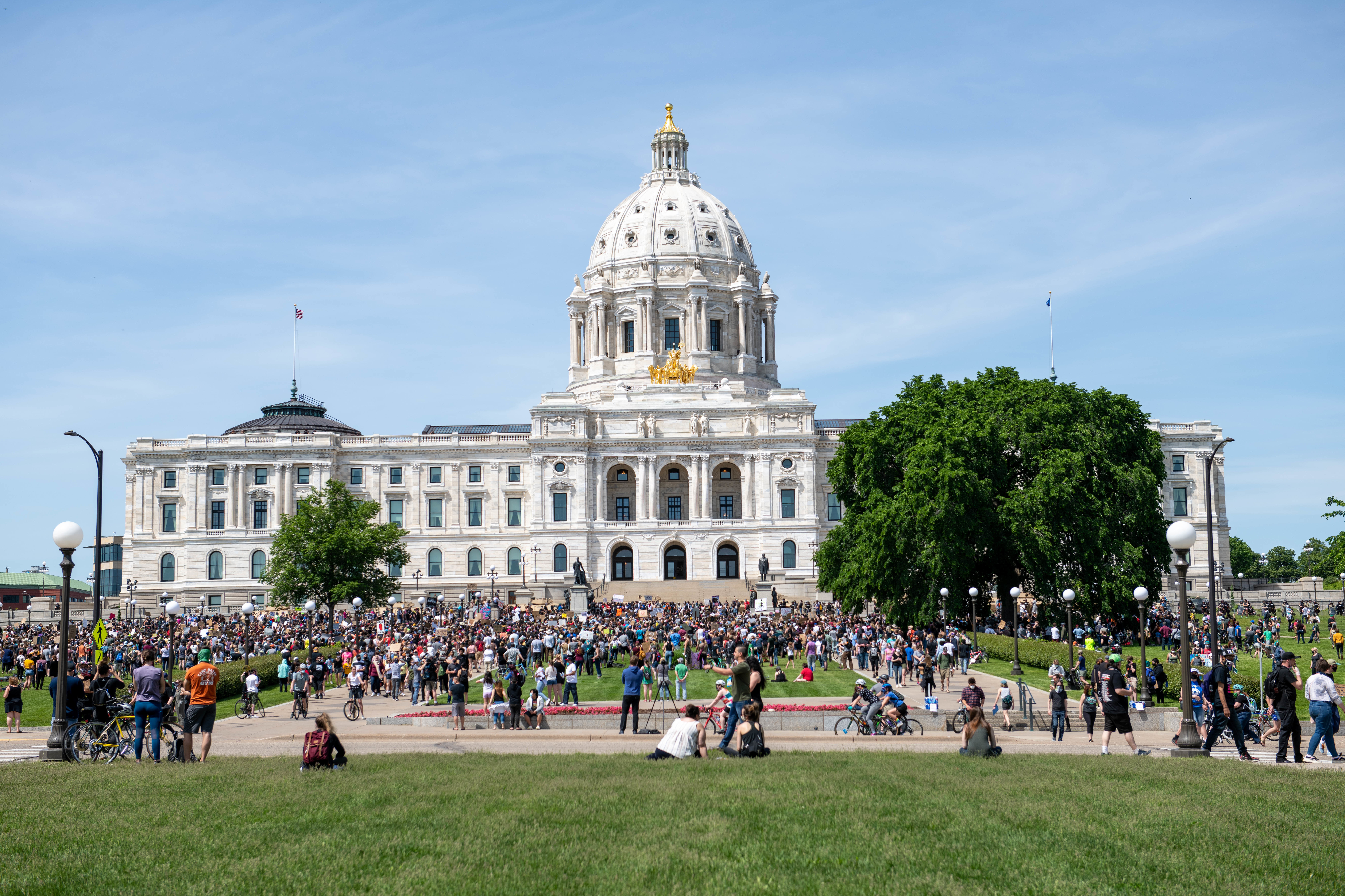 People from across Minnesota and the U.S. gathered at the state capitol in St. Paul, Minnesota, on May 31, 2020, in response to the death of George Floyd on May 25. Soldiers and Airmen with the Minnesota National Guard supported local law enforcement in providing security during the demonstration. (Minnesota National Guard photo by Sgt. Sebastian Nemec)